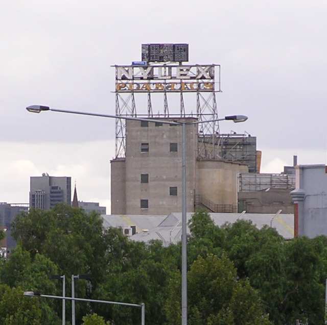 Nylex Clock, Melbourne, Australia. Taken from Chapel St Bridge.